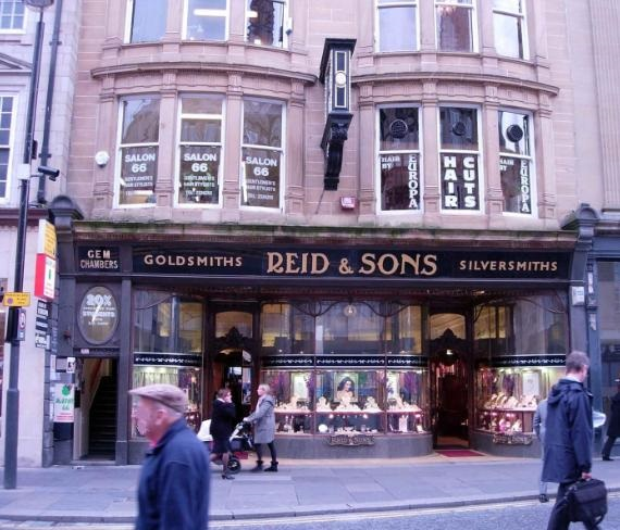 The premises since 1895 of the silversmiths Reid & Sons on Blackett Street in Newcastle upon Tyne